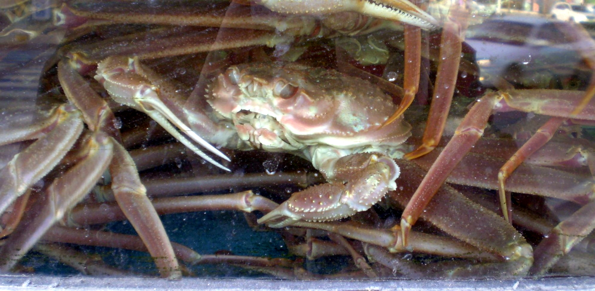 Yeongdeok great crab, Chionoecetes opilio in a tank in Daegu, South Korea.